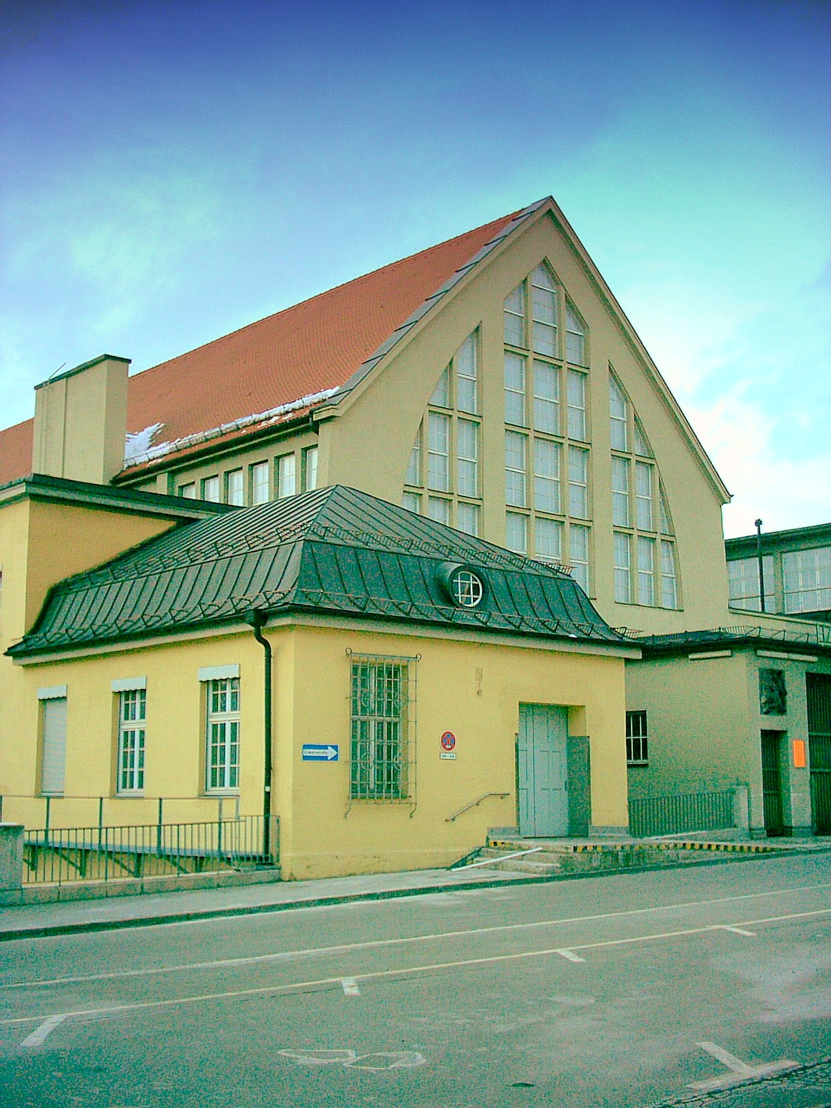 Großmarkthalle, Munich-Sendling: South-east corner of Hall 1. Image taken by Dominik Hundhammer, München, 28 February 2006.